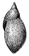 Drawing of an lateral view od the shell of Radix natalensis, synonym: Limnaea caillaudi.